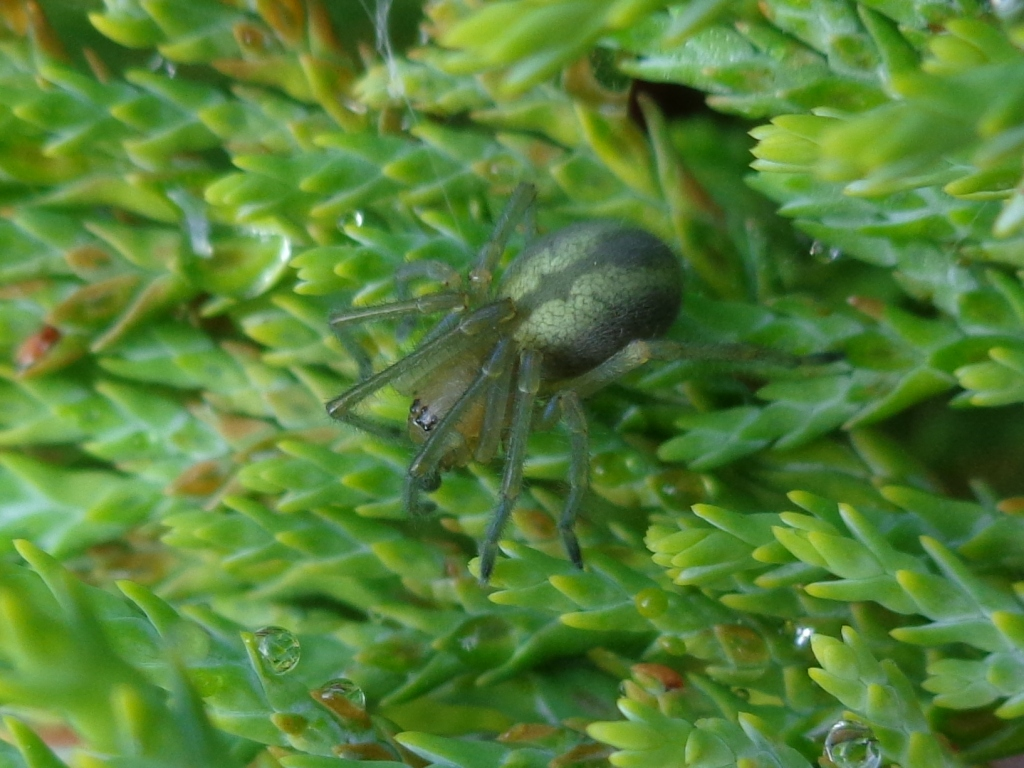 Cheiracanthium erraticum. Found ir Lilaste region, Latvia